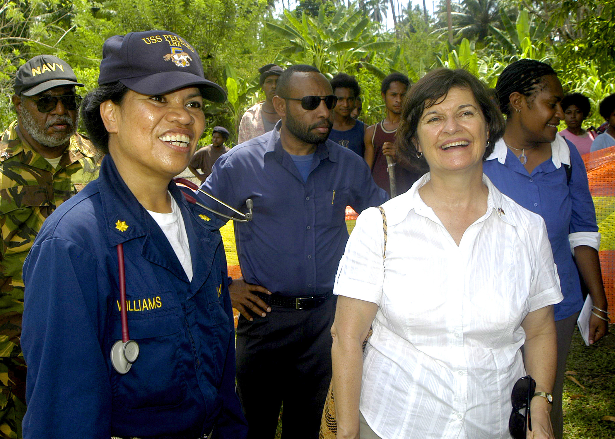 KARKAR ISLAND, Papua New Guinea (Aug. 15, 2007) - The Honorable Leslie V. Rowe, U.S. Ambassador to Papua New Guinea, Solomon Islands and Vanuatu, takes a tour of Miak Health Clinic with Lt. Cmdr. Leila Williams. Sailors from USS Peleliu (LHA 5), along with volunteers from non-governmental organizations and partner nations, are providing medical assistance to local citizens on Karkar Island in support of Pacific Partnership 2007. U.S. Navy photo by Mass Communication Specialist Seaman Patrick D. House (RELEASED)